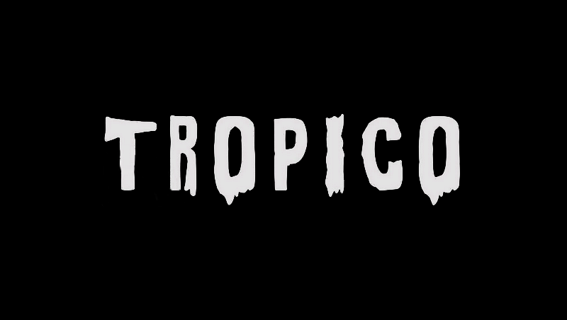 Logo of the short film Tropico